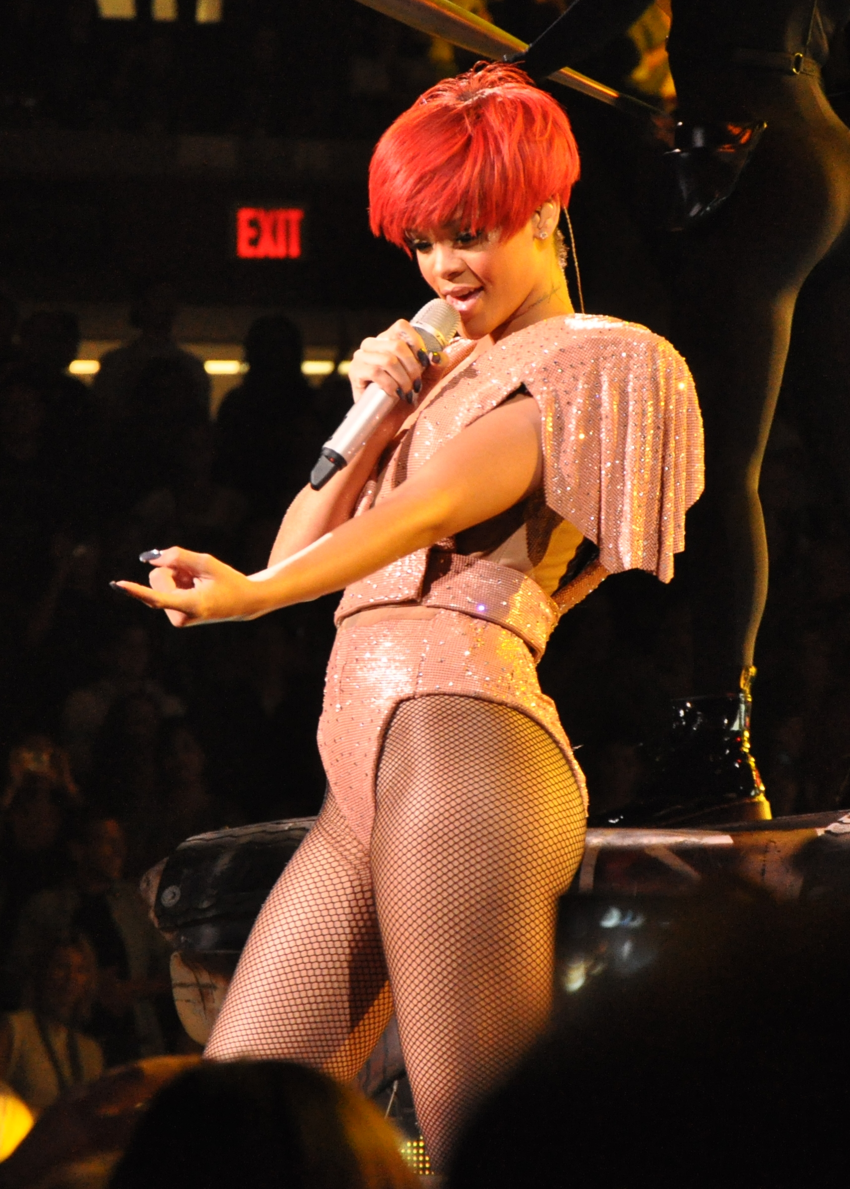 Rihanna performing in the Last Girl on Earth Tour in August